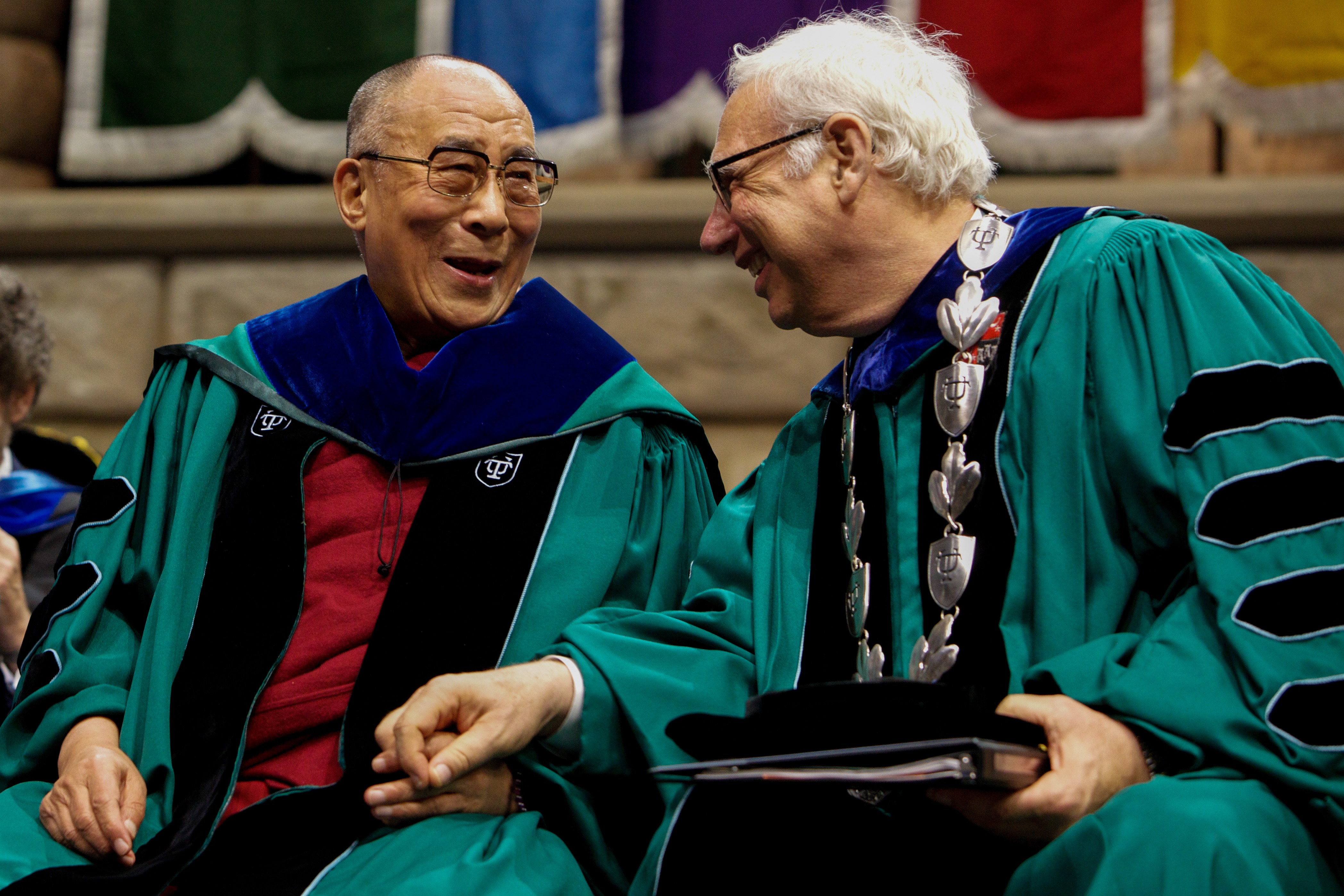 Tulane University commencement. Dalai Lama with University President Scott Cowen